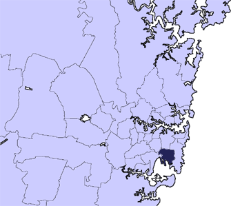 Locator Map Botany Bay lga.png Based on Image:Ku-ring-gai sydney.png by User:Randwicked.